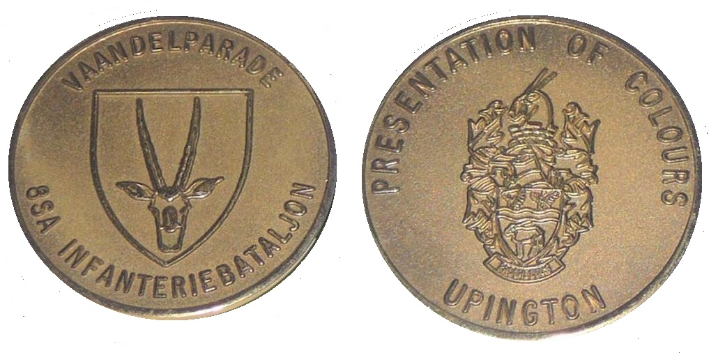 8 SAI Commemorative medal